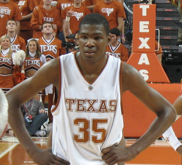 Kevin Durant, about to shoot a free throw, during a Texas Basketball game at the Frank Erwin Center